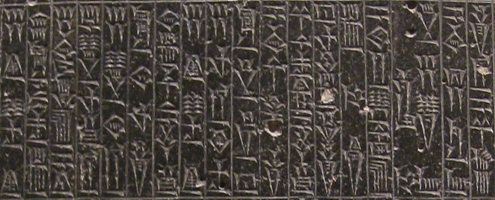 CH 165 (horizontal)